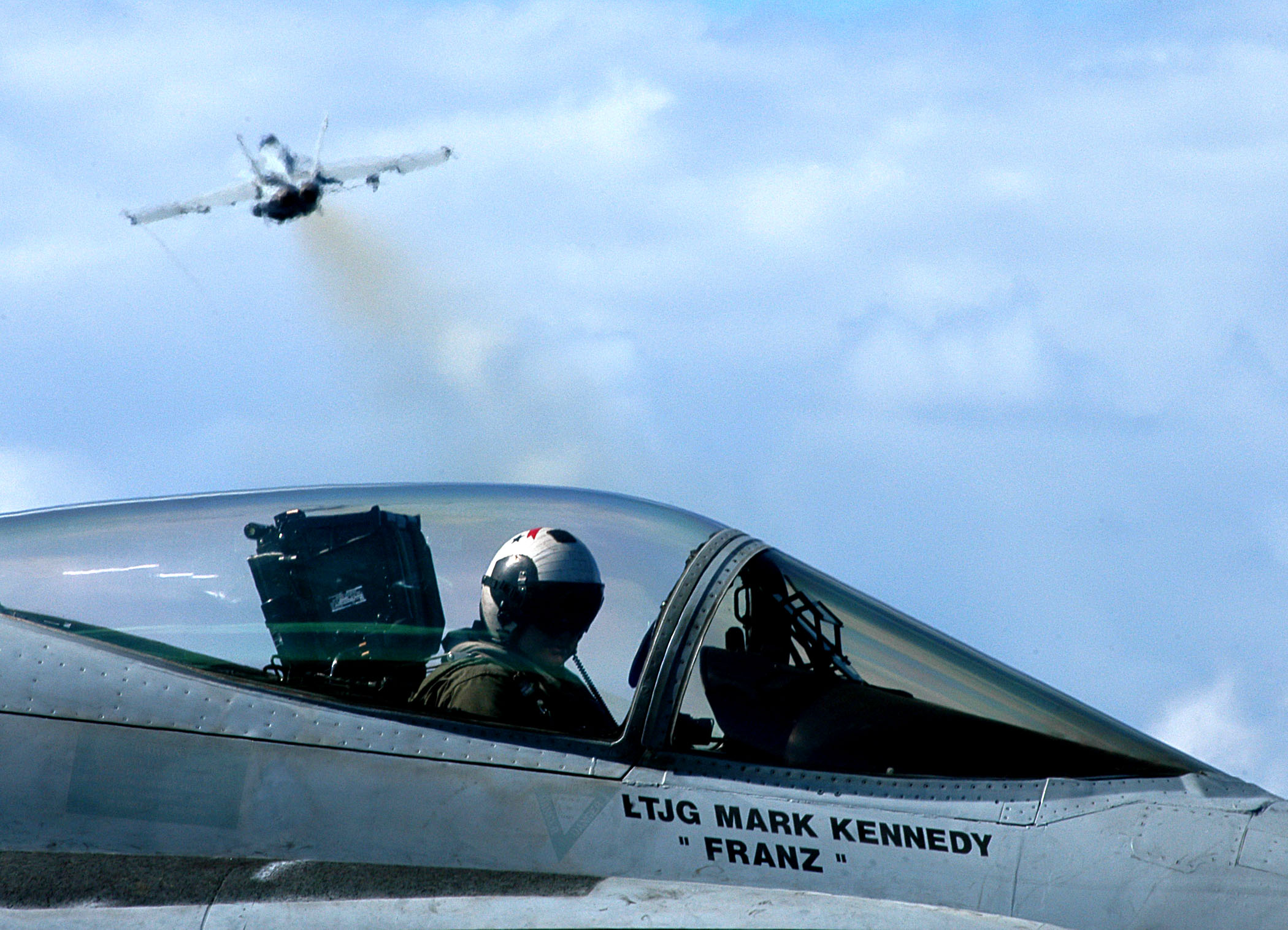 Pacific Ocean (Nov. 3, 2003) -- The pilot of an F/A-18 Hornet goes through checklists as another F/A-18 launches from the flight deck of USS John C. Stennis (CVN 74). Stennis and her embarked Carrier Air Wing Fourteen (CVW-14) are at sea conducting Composite Training Unit Exercise (COMPTUEX) in preparation for an upcoming deployment. U.S. Navy photo by Photographer's Mate 3rd Class Tyler Orsburn. (RELEASED)